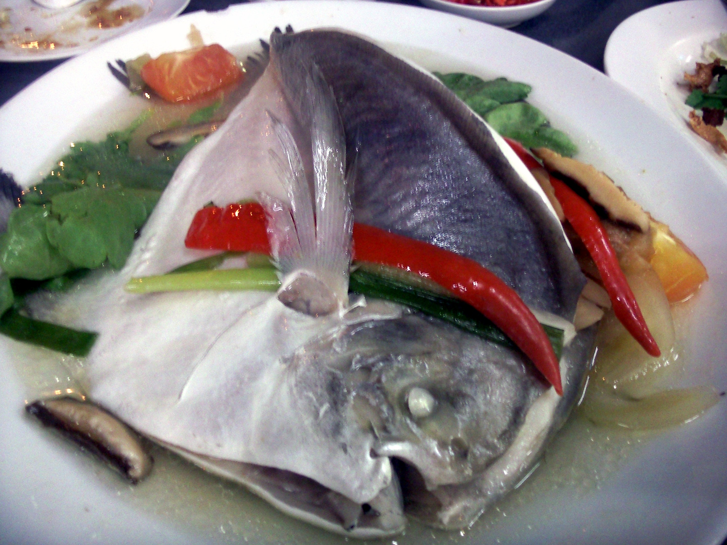 Chiuchow Teochew cuisine; steamed fish